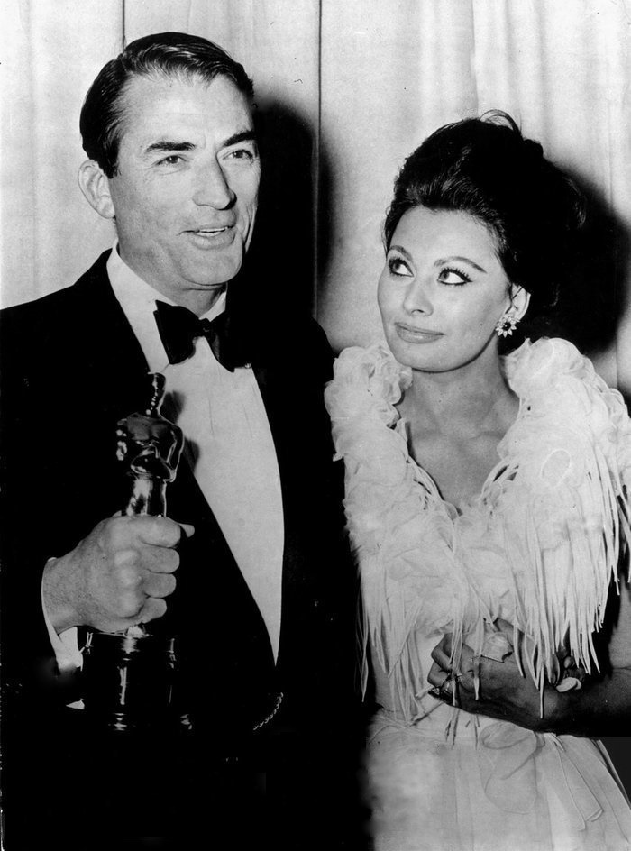 Gregory Peck and Sophia Loren during at the 35th Oscars (1963).